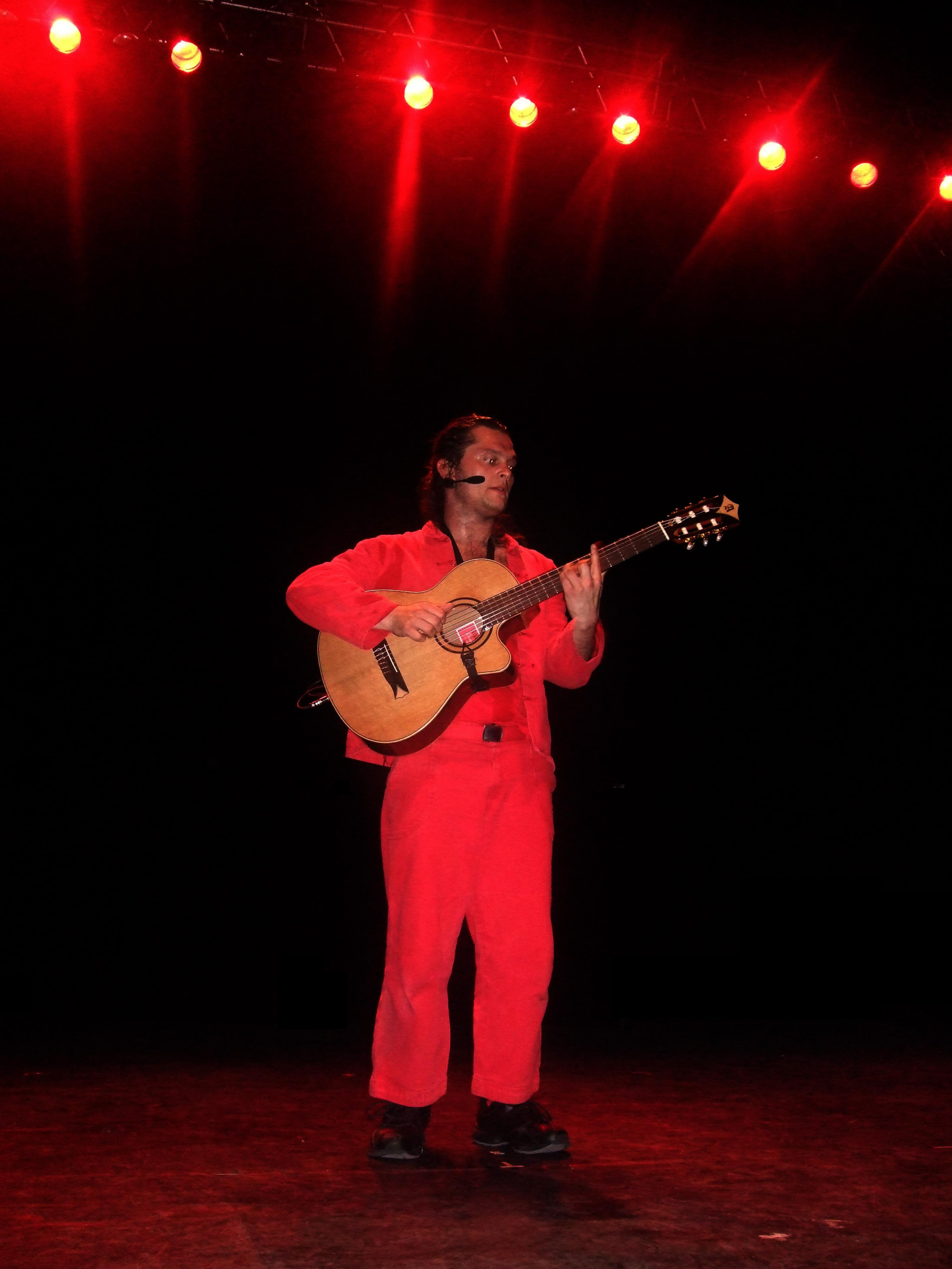 "Les Wriggles" in Clermont-ferrand (France).